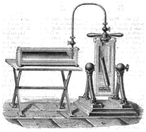 Apparatus for making liquid carbon dioxide; designed and built by A.J.P. Thilorier in 1834.